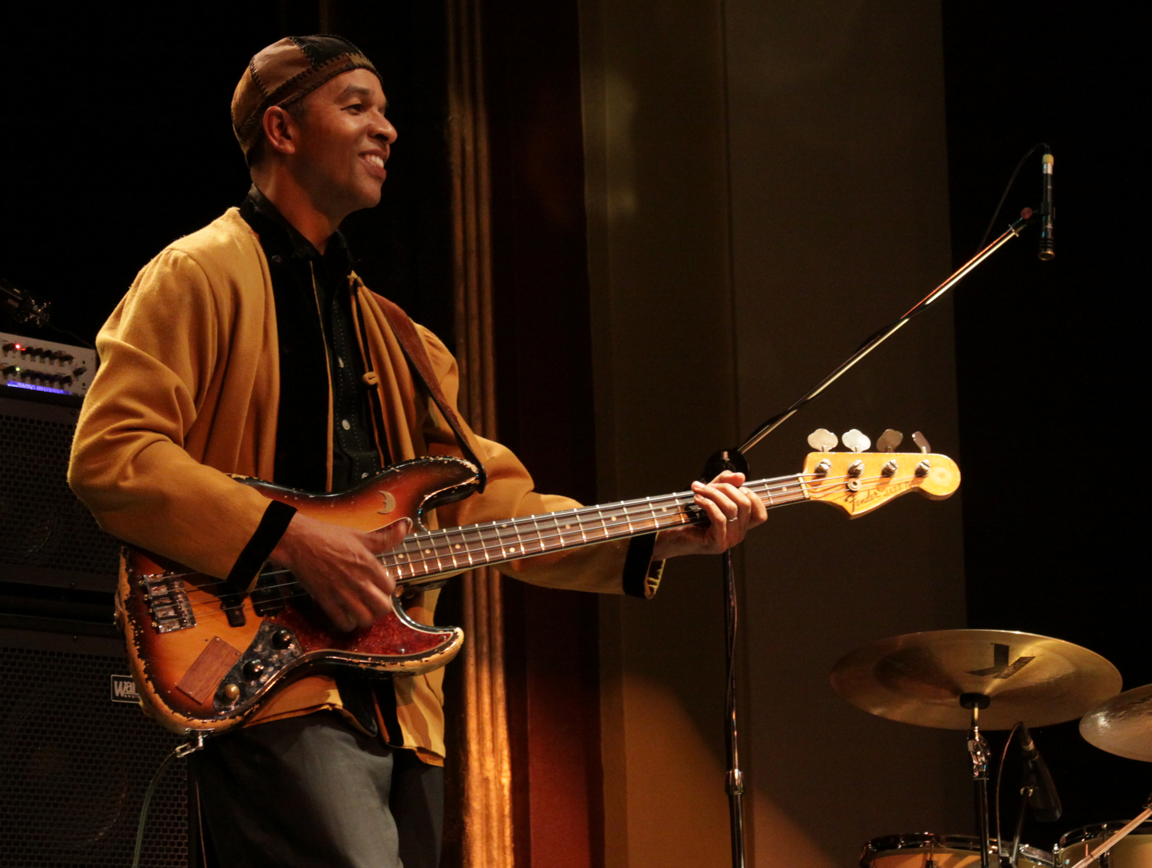 Kai Eckhardt in performance 2015